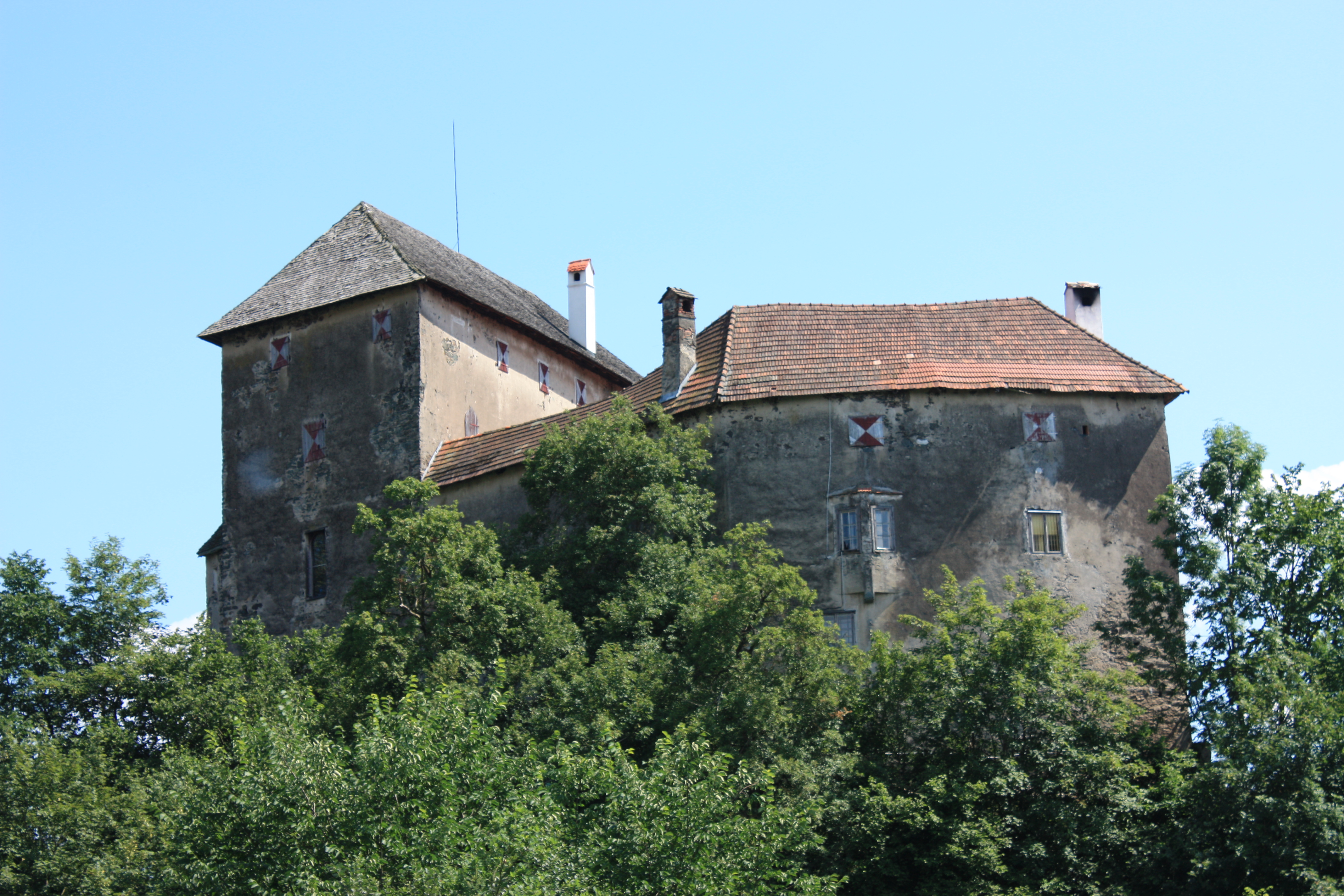 Neudenstein castle Locality:Neudenstein Community:Völkermarkt